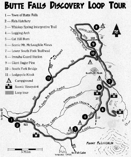 A map of the Discovery Loop near Butte Falls.